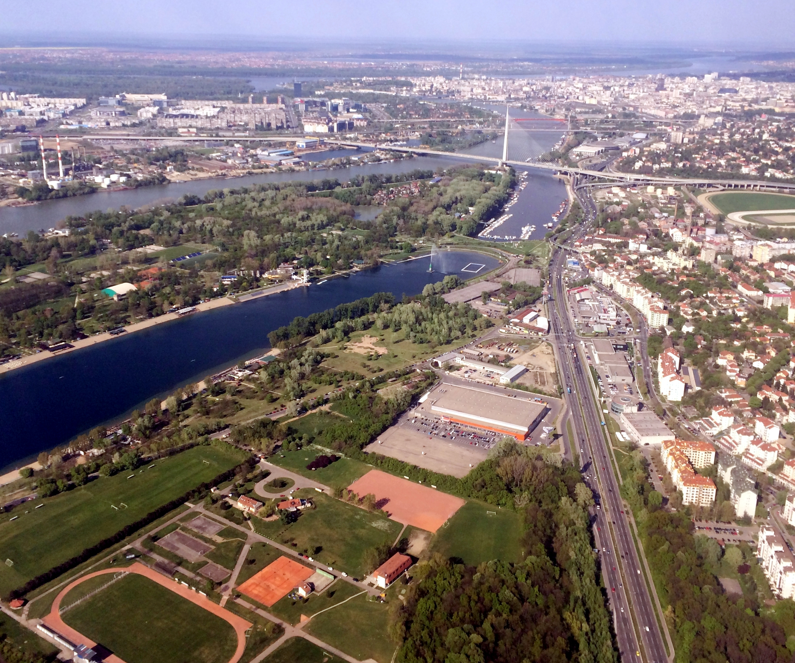 Aerial view over Sava River in Beograd, capital of Serbia. We see Novo Beograd to the left, and parts of Cukarica and Banovo Brdo to the right.